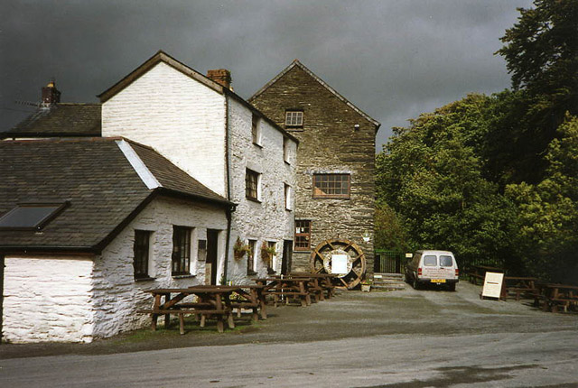 Penegoes Water Mill, near Machynlleth. Shot in 1991, when the mill was open to the public